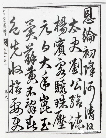 A page from a book written by the 17th-century Korean politican Park Seungjong